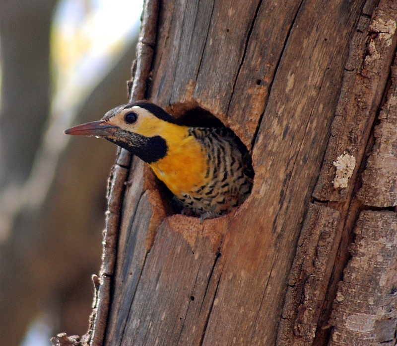 Ein Feldspecht (Colaptes campestris)